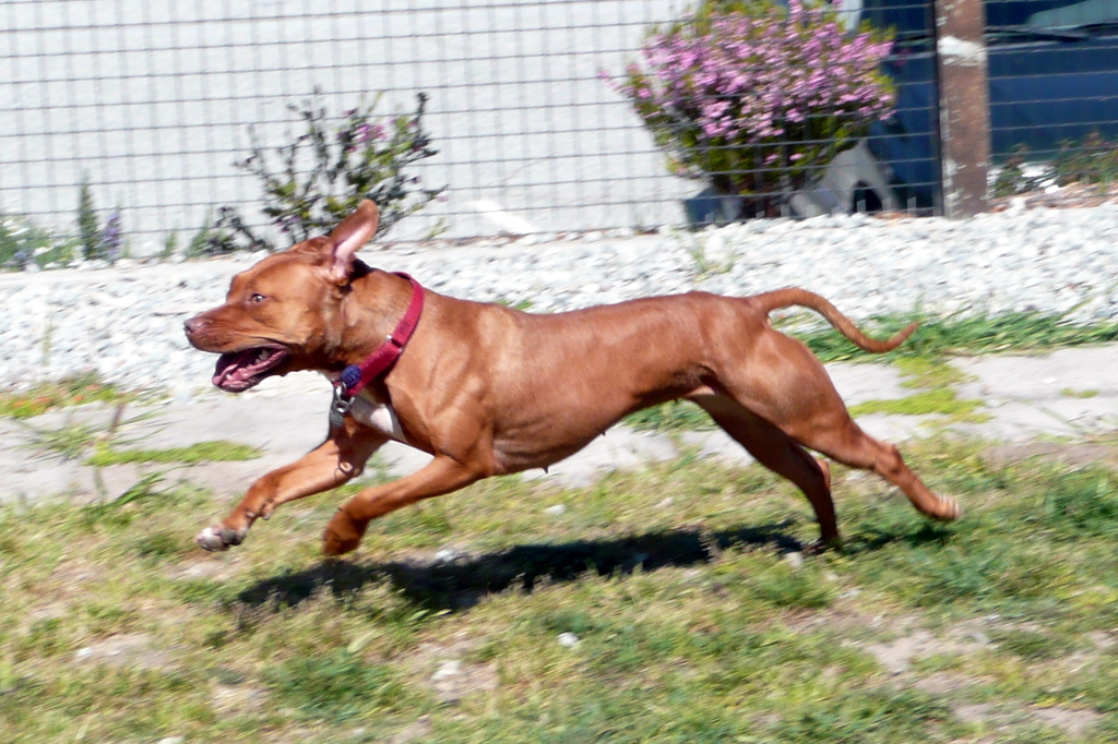 American Pit Bull Terrier female dog running